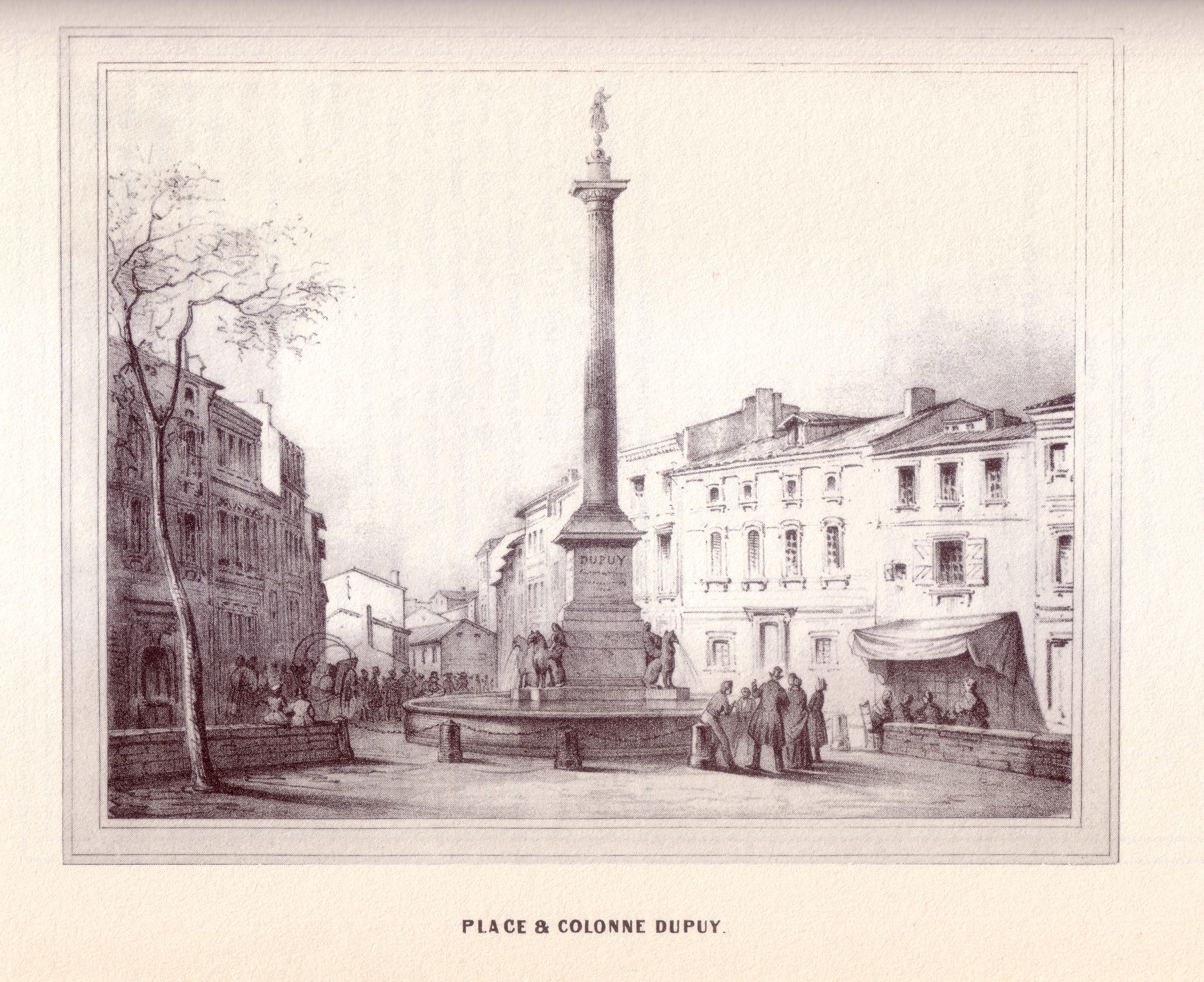 19th century drawings of Toulouse